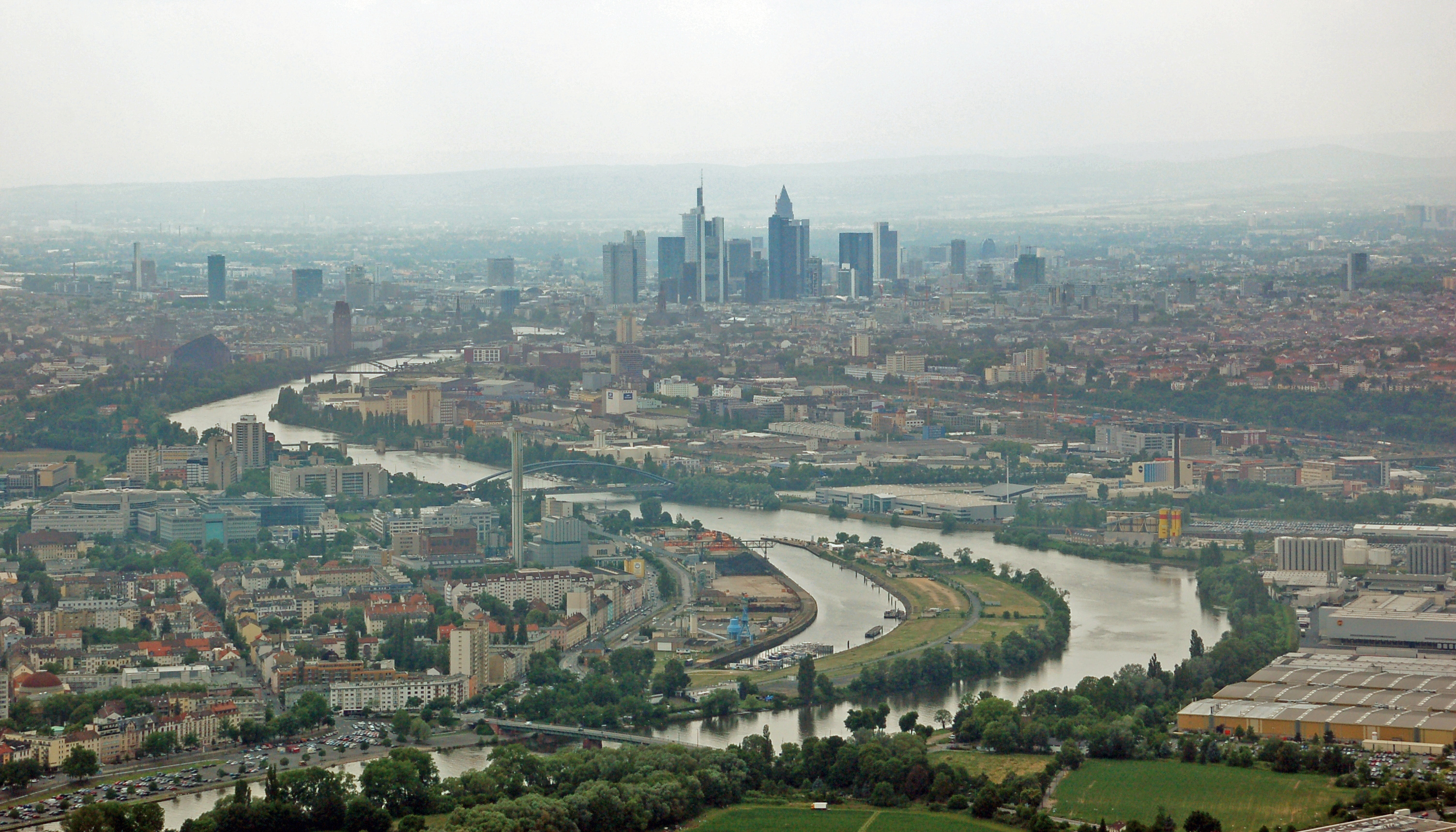 Aerial photograph of Frankfurt/Main, Hessen, Germany